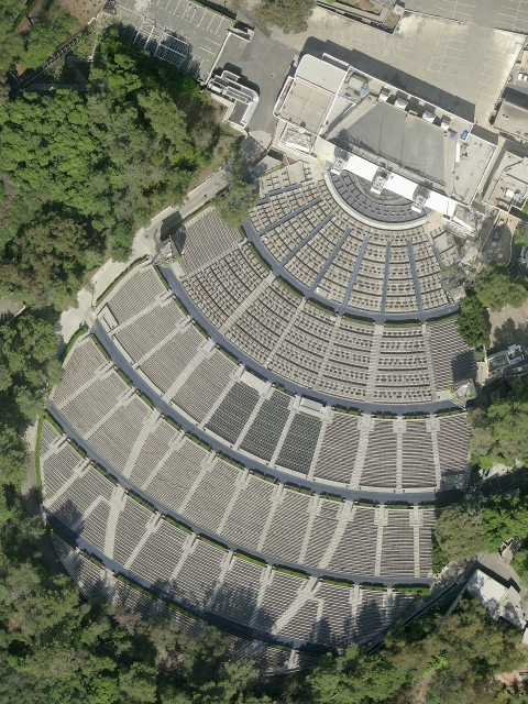 High Resolution Orthoimagery of Los Angeles, centered on the Hollywood Bowl. Image taken on December 16, 2010.